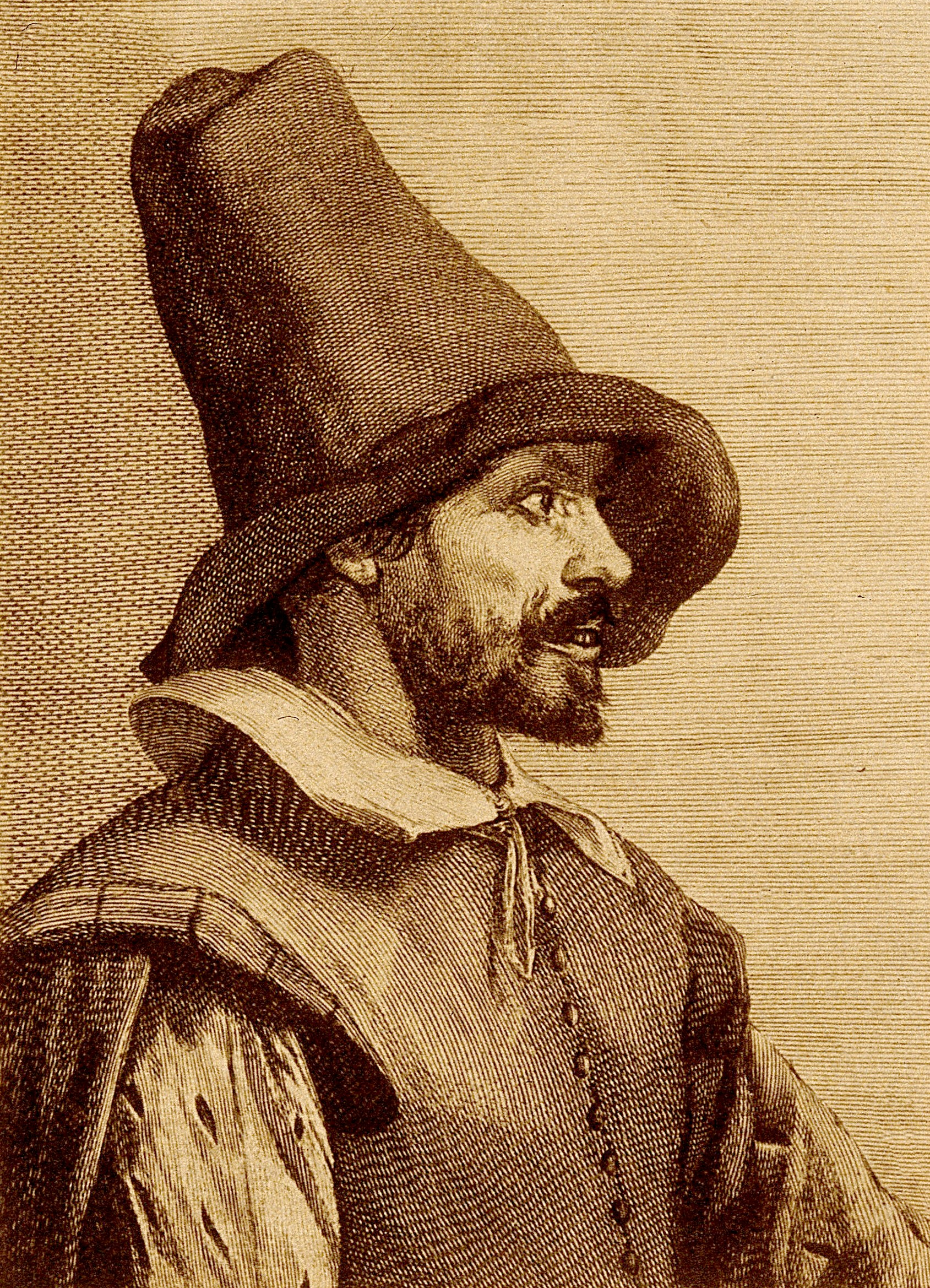 Jan de Doot, reproduction of an engraving, after Cornelis de Visscher